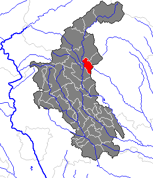 This map shows the area of the Gemeinde (municipality) Gschaid bei Birkfeld in the Bezirk (district) Weiz, Styria, Austria.